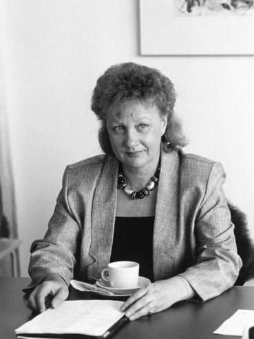 Photograph of the Finnish minister of education Anna-Liisa Piiparinen, née Oksanen, later Kasurinen (1940–), during her visit to the University of Arts and Design, Helsinki.